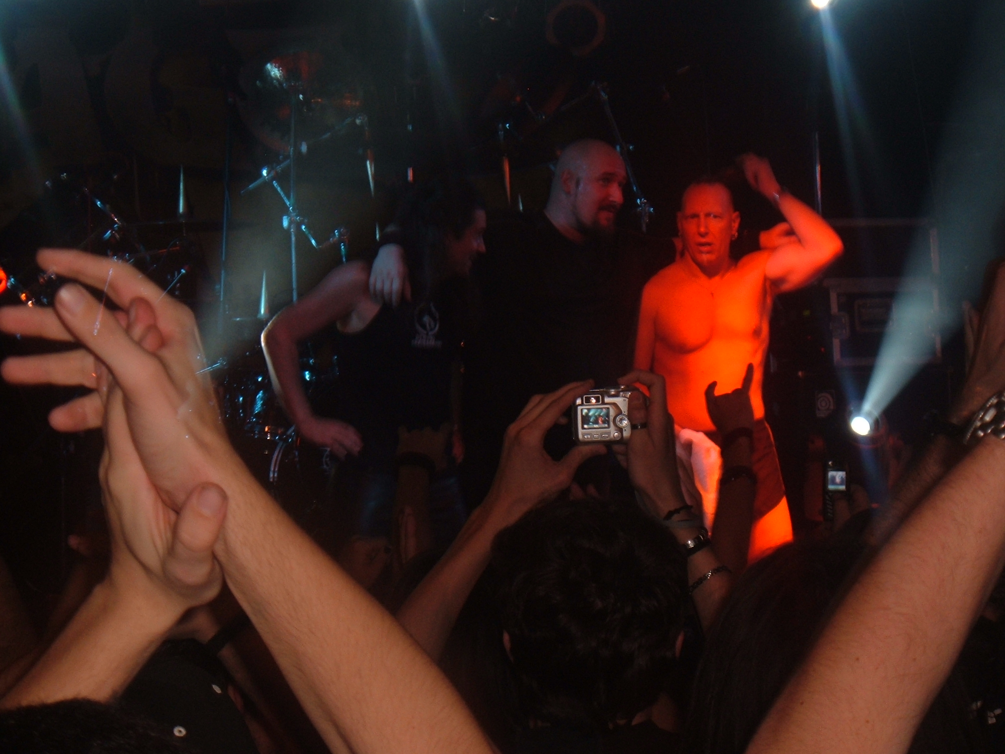 Picture taken by myself with my camera. Live in Milan, Italy (at the Rainbow). 13 April 2006. Members: Peter Wagner - vocals, bass Victor Smolski - guitar, Keyboard Mike Terrana - drums